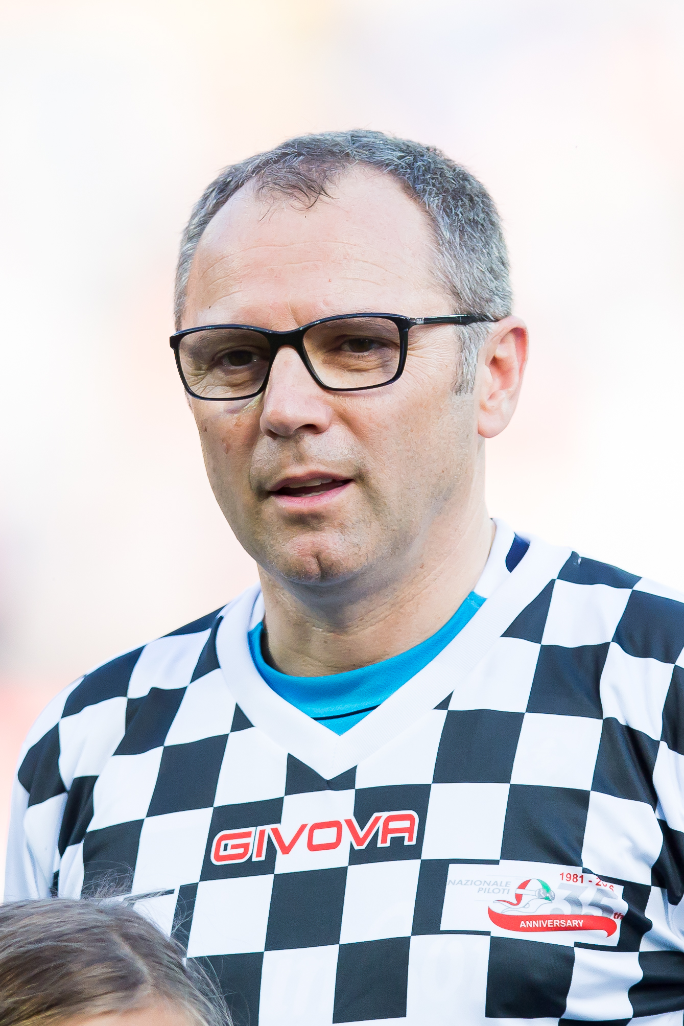 during football match between Nowitzki All Stars and Nazionale Piloti in honor of Michael Schumacher at Opel Arena, Mainz, Rheinland Pfalz, Germany on 2016-07-27, Photo: Sven Mandel